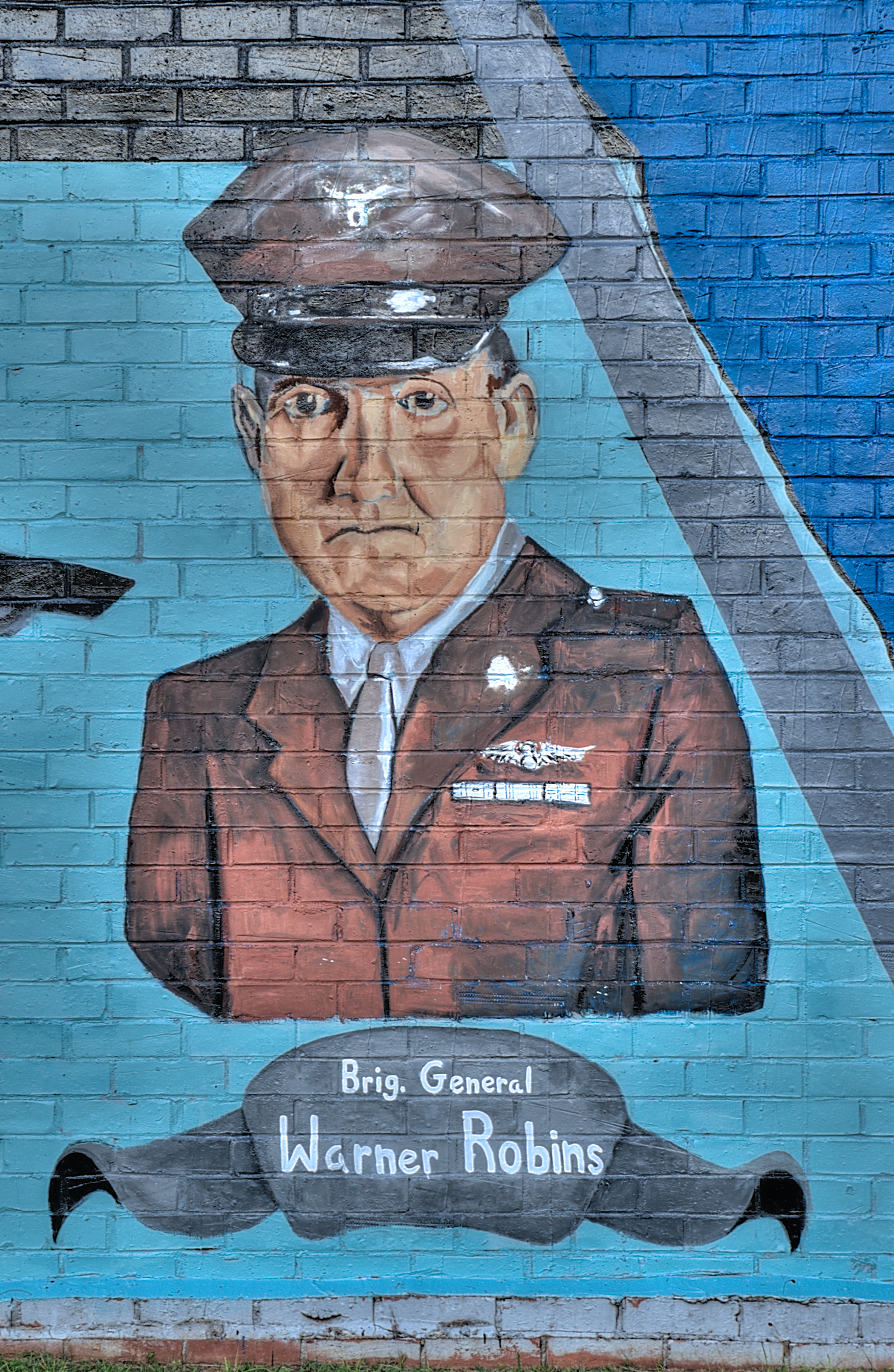 Mural of Augustine Warner Robins